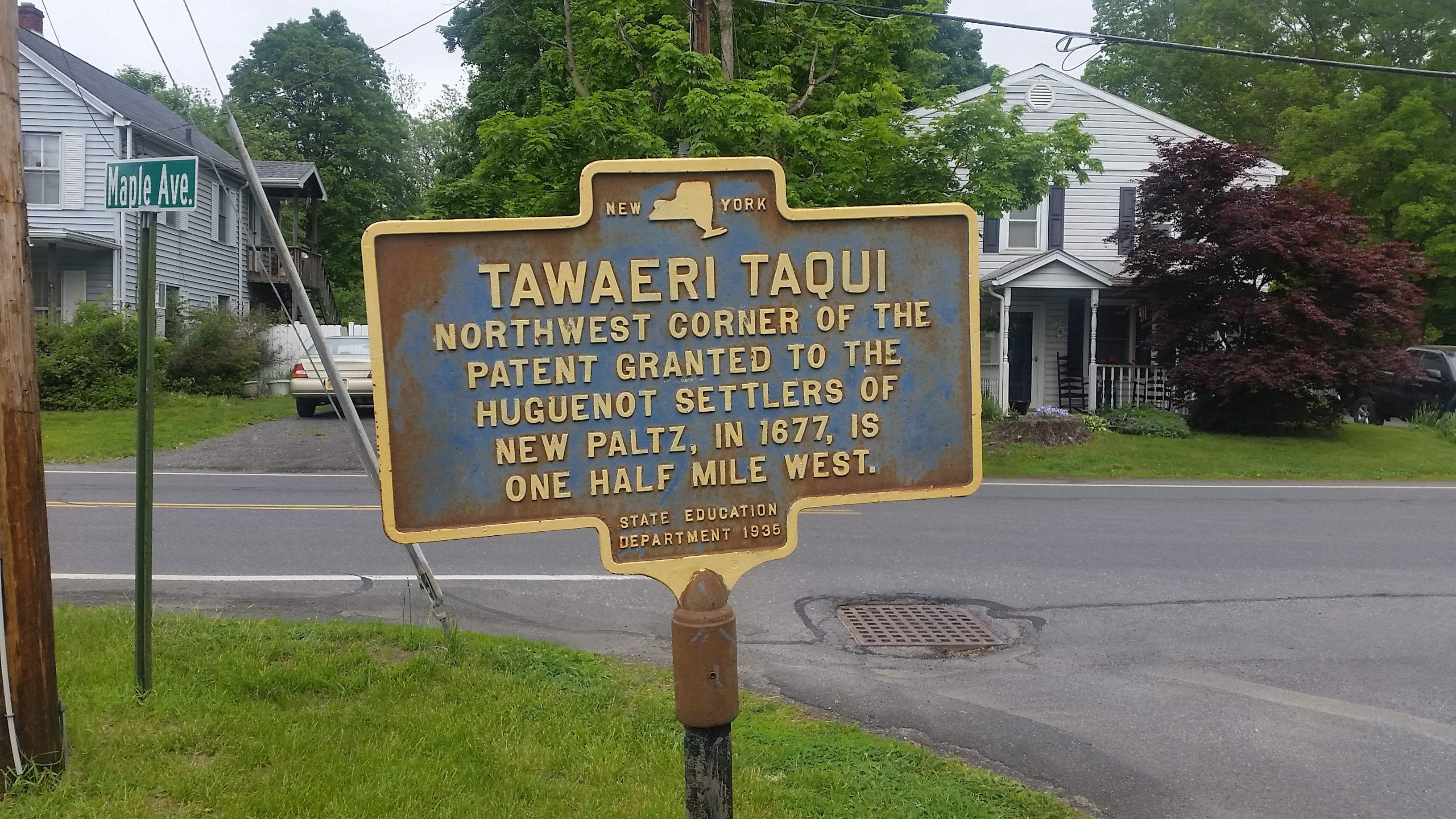 NY State historical marker for Tawaeri Taqui (whatever that is...)